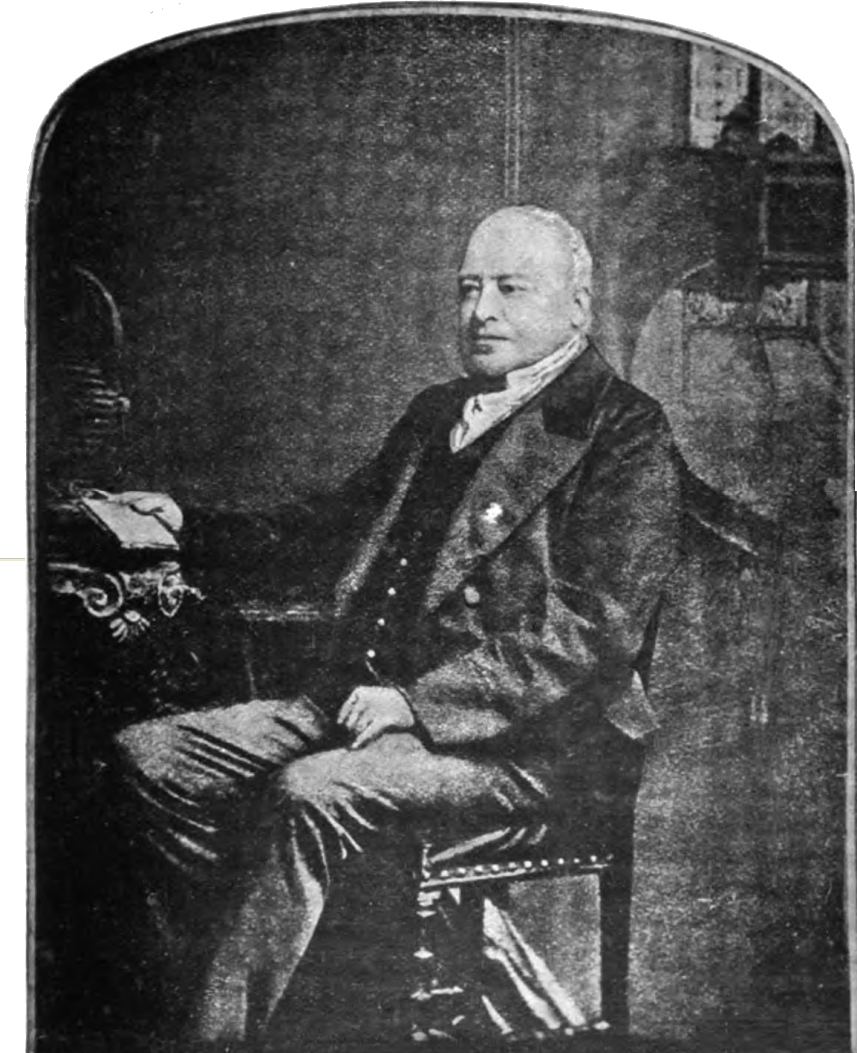 John William King, the vicar of Ashby de la Launde and the owner of the Thoroughbred racehorse and 1874 Fillies' Triple Crown winner Apology.